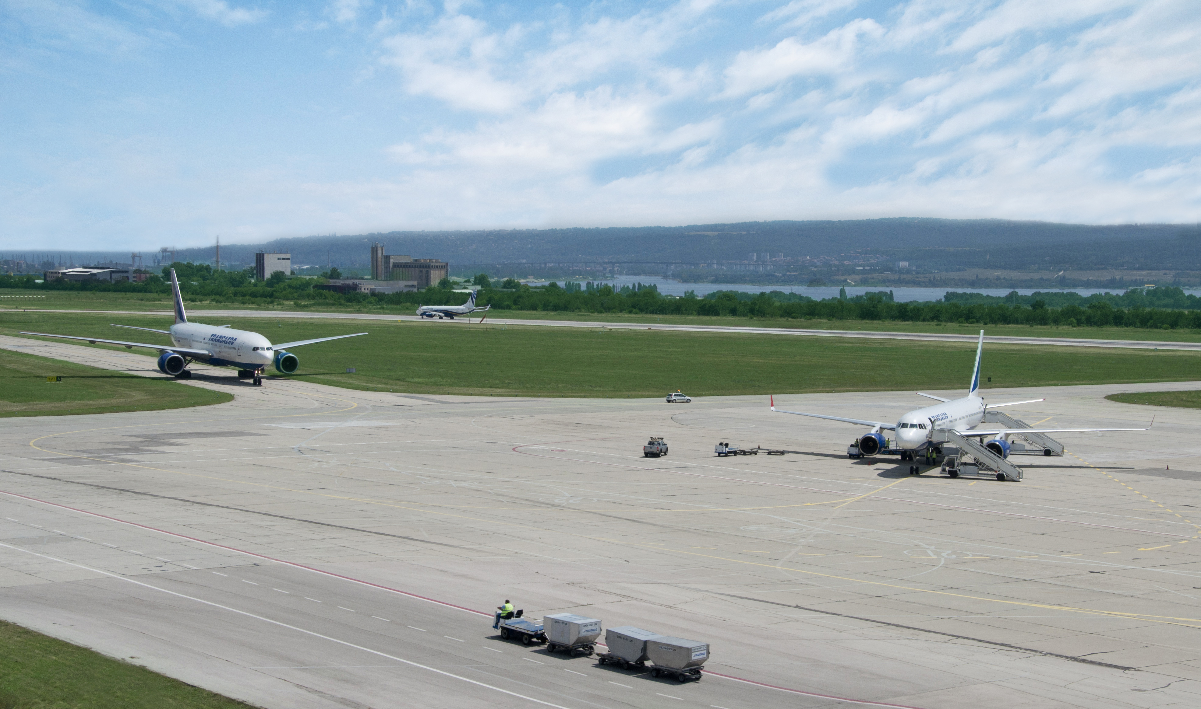 Varna airport in Bulgaria.